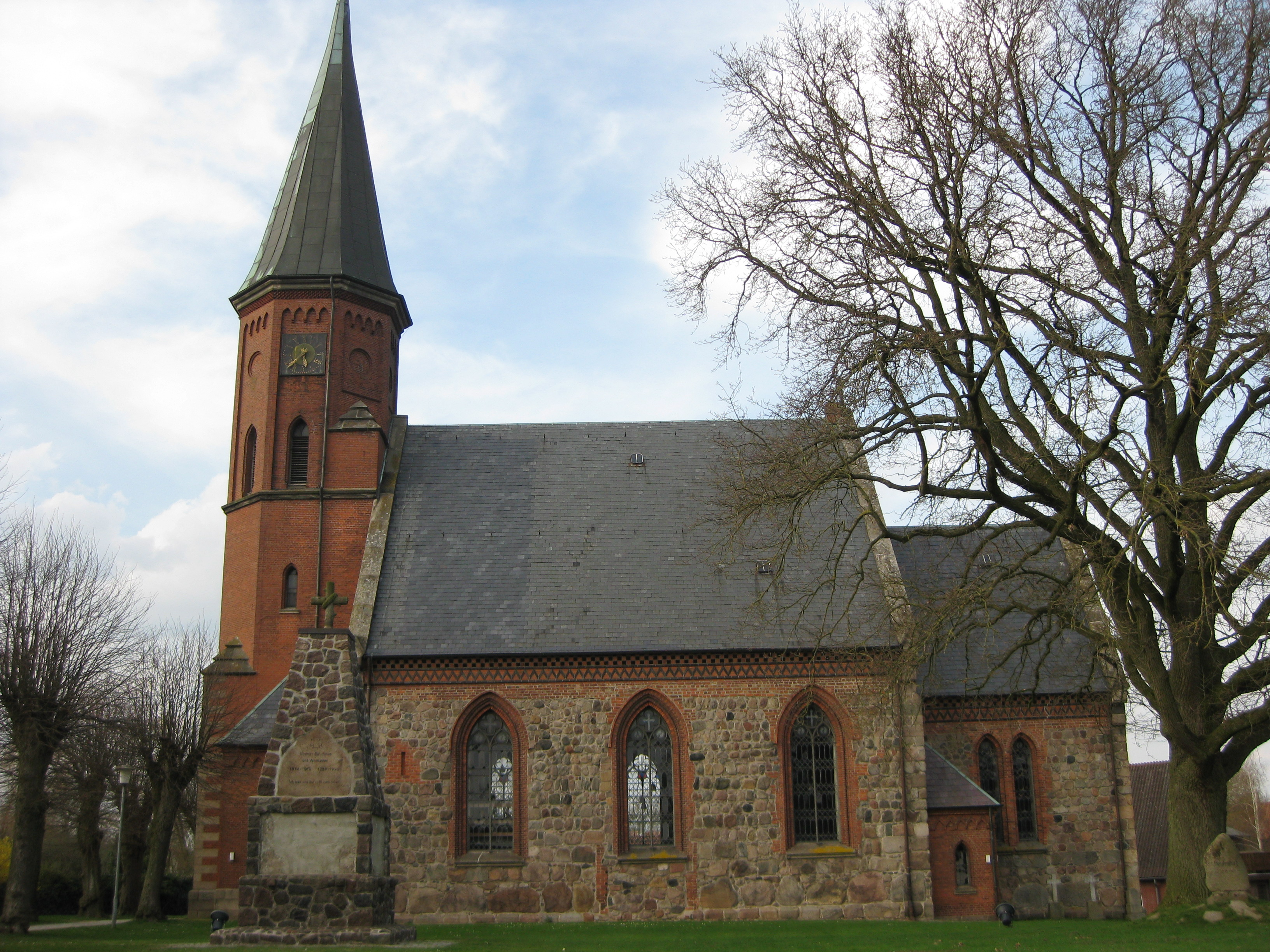 Church in Breitenfelde, Duchy of Lauenburg